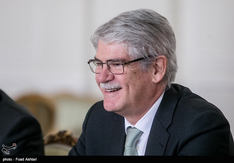 Alfonso María and Mohammad Javad Zarif